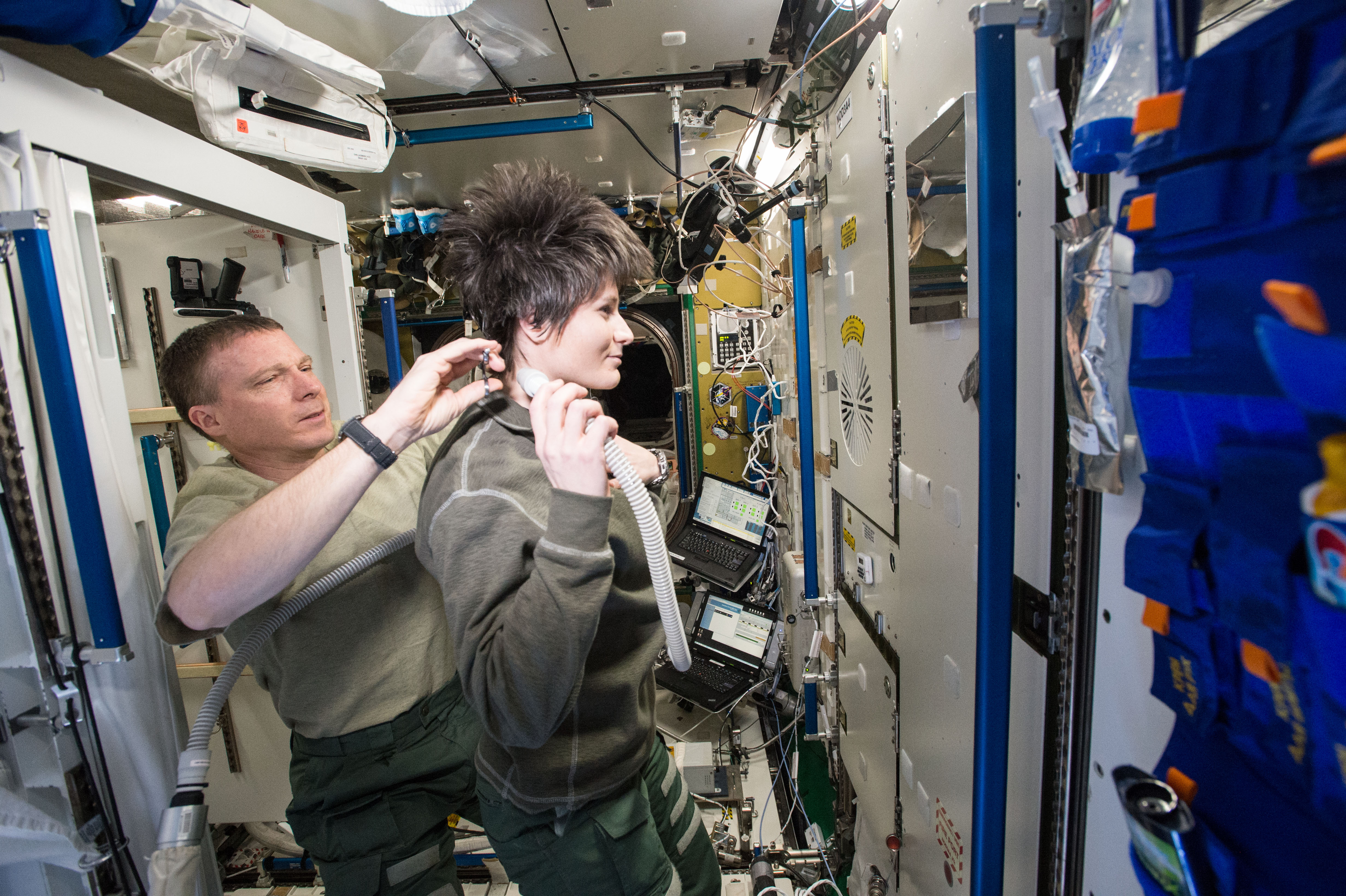 Its haircut time onboard the International Space Station as Expedition 43 Commander and NASA astronaut Terry Virts handles the scissors while ESA (European Space Agency) astronaut Samantha Cristoforetti holds the vacuum to immediately pull the fine hair strands into the safe container so they don't float away into the station. Hair trims are a regular occurrence during an astronaut's six month tour.